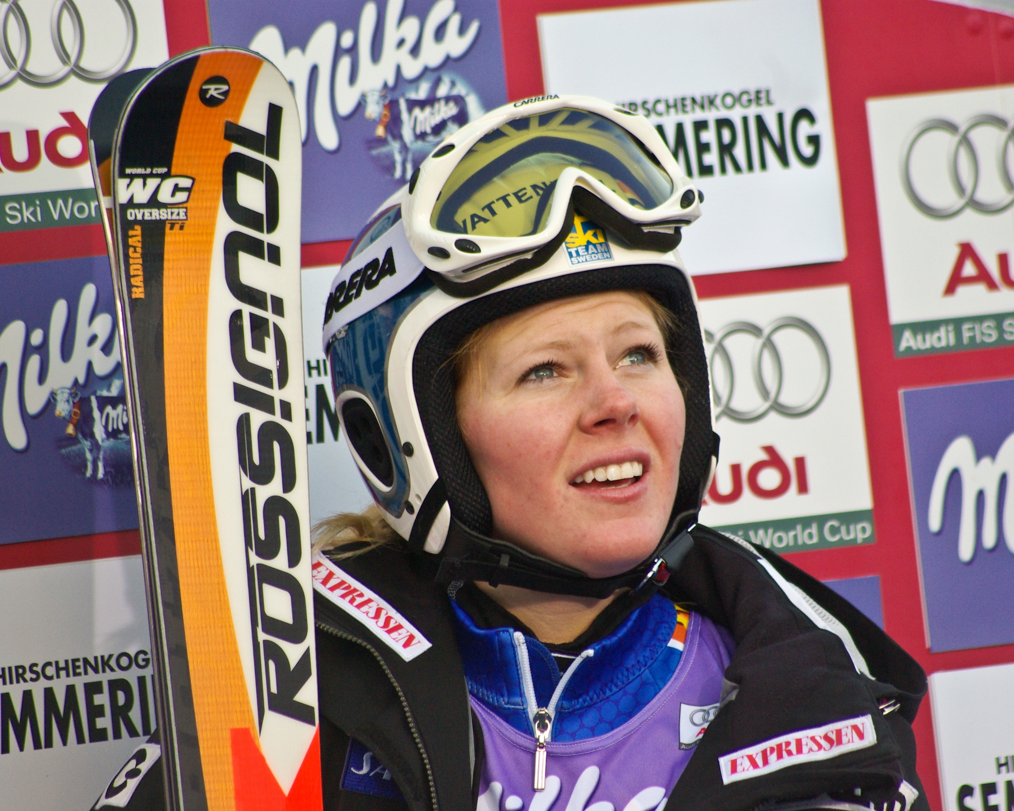 Swedish alpine skier Jessica Lindell-Vikarby after her second run in the giant slalom in Semmering (Austria) on 28 December 2008.